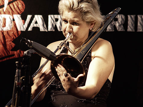 Gunhild Carling 2007